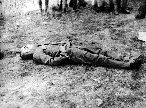 The corpse of General Hisakazu Tanaka after his execution by a chinese firing squad.